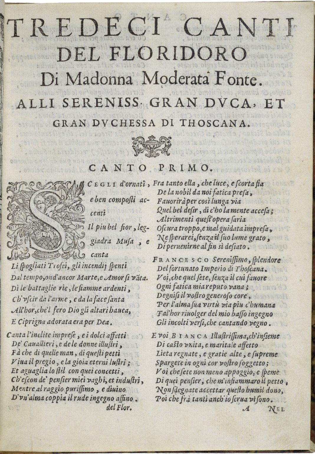 First page of a 1581 edition of Moderata Fonte's cantos